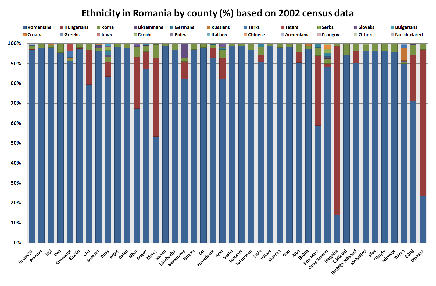 Ethnicity in Romania by county (%) based on 2002 census data